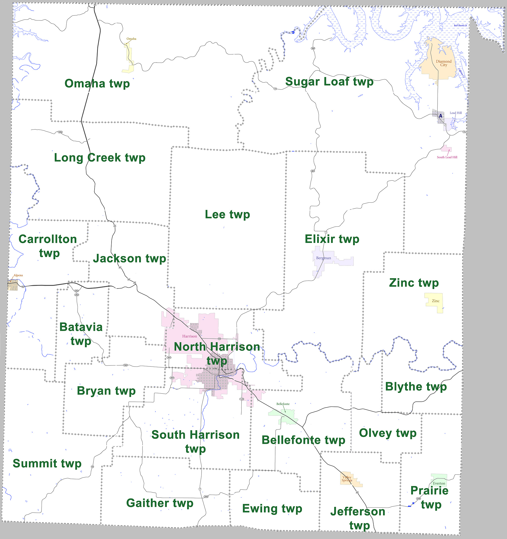 Large version of map showing townships in Boone County, Arkansas. Modified from US census map (for 2010 census) for Boone County, Arkansas